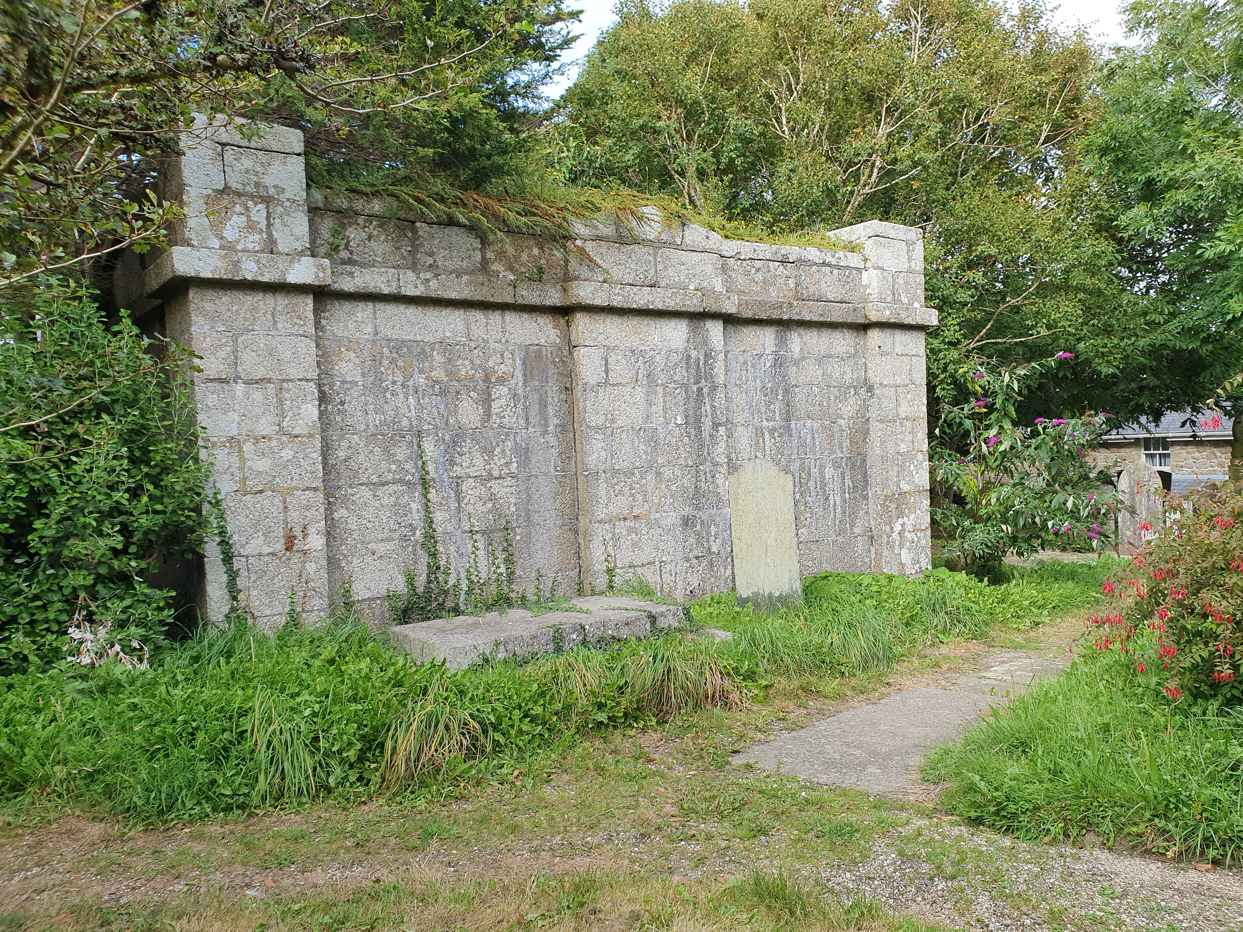 View of the Rose Price mausoleum in Madron churchyard from the south. In the churchyard of St Maddern's Church, Madron, Cornwall on 3rd September. 2019.